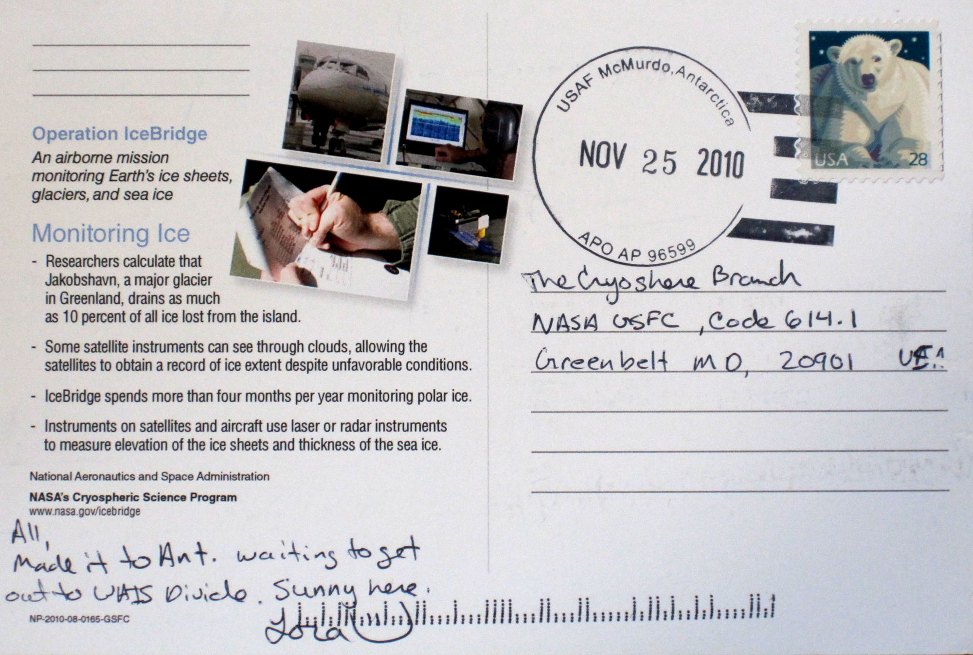 Lora Koenig, a physical scientist at NASA's Goddard Space Flight Center and the Deputy Project Scientist for the NASA Operation IceBridge mission, wrote a note on an Operation IceBridge postcard to colleagues at Goddard on Nov. 25, 2010, while waiting to fly from McMurdo Station in West Antarctica to the start of a science traverse from the WAIS Divide camp. The traverse was the first of two field campaigns to study snow accumulation on the West Antarctic Ice Sheet and tie the information back to larger-scale data collected from satellites. Credit: NASA/Lora Koenig